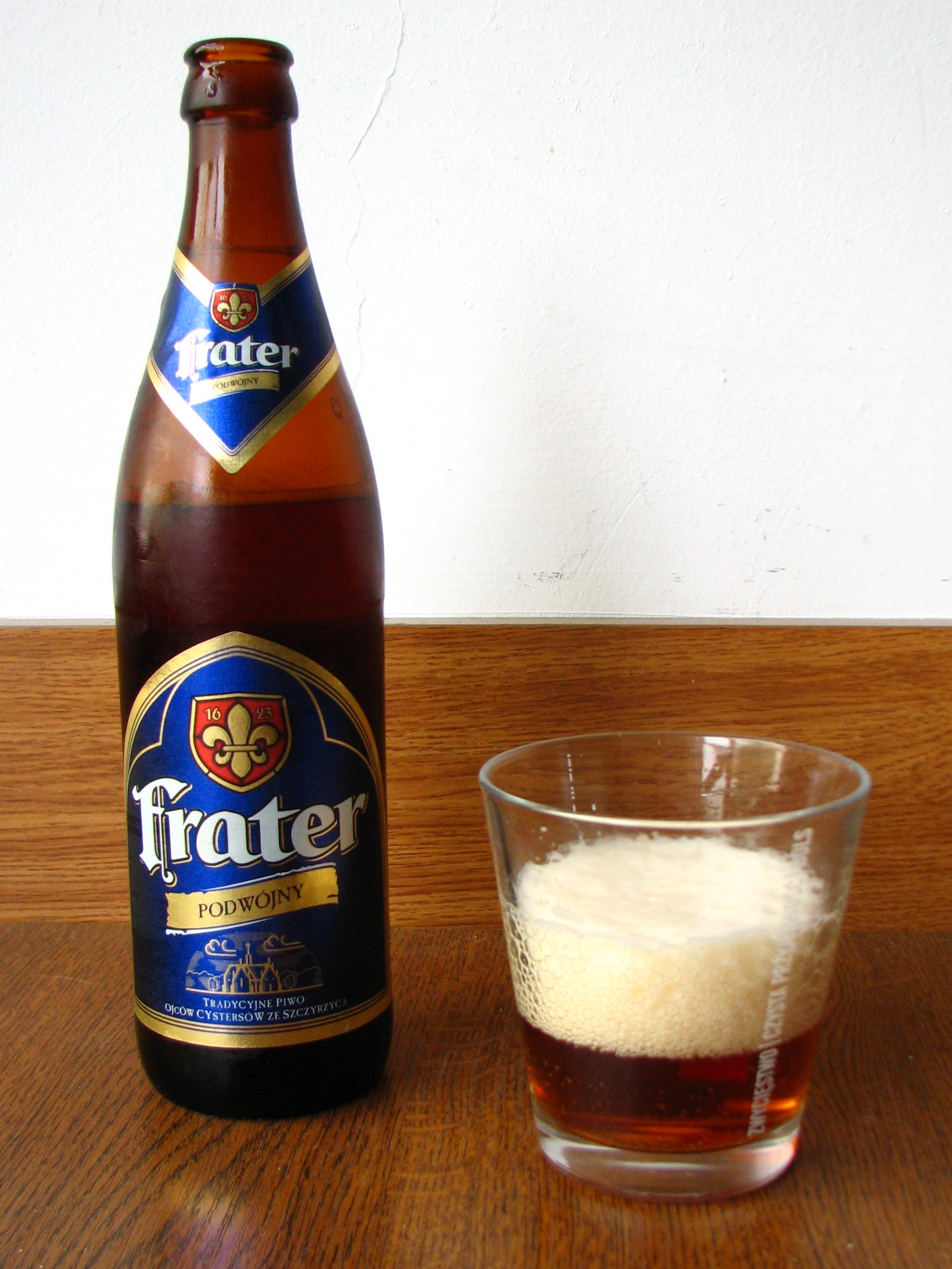 Polish beer Frater Podwójny.